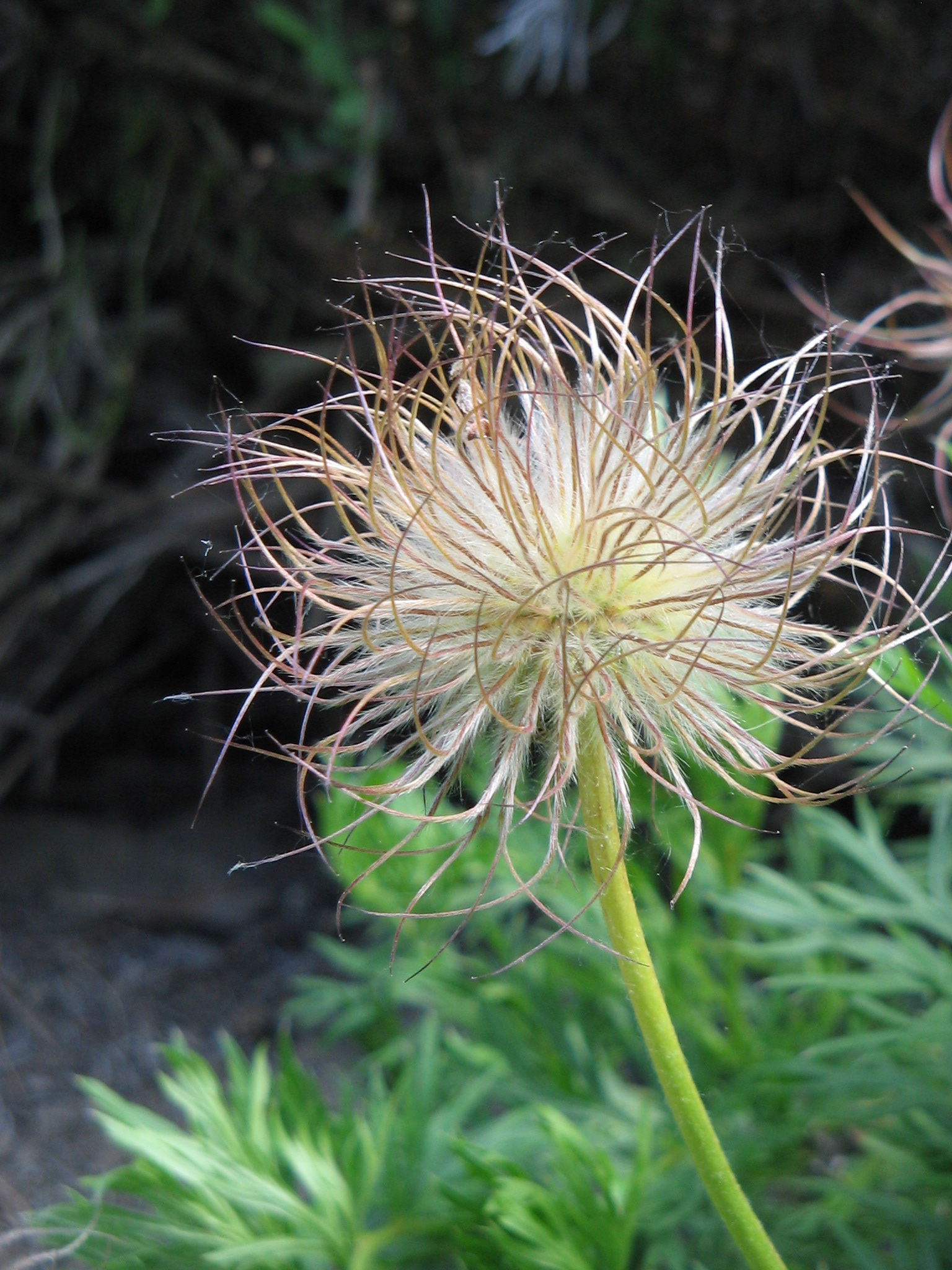 Pulsatilla vulgaris fruit